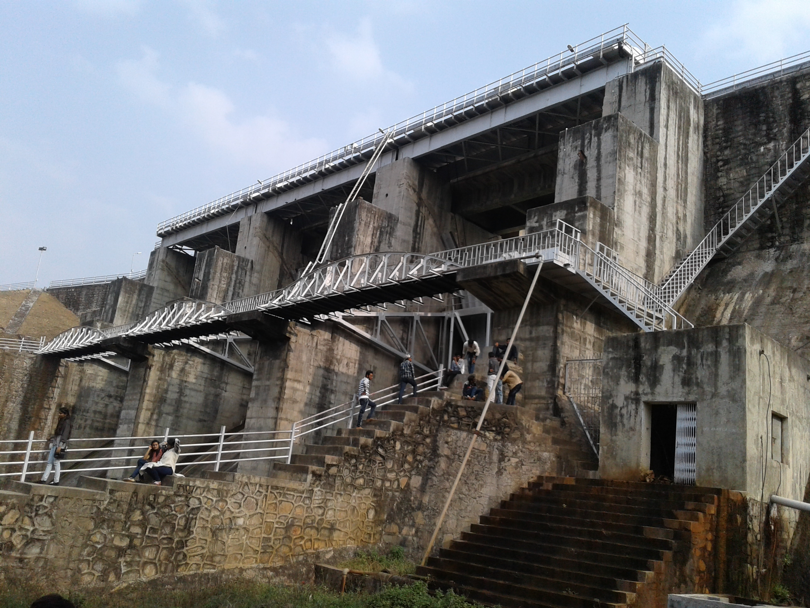 Harnav dam, polo forest, Vijaynagar